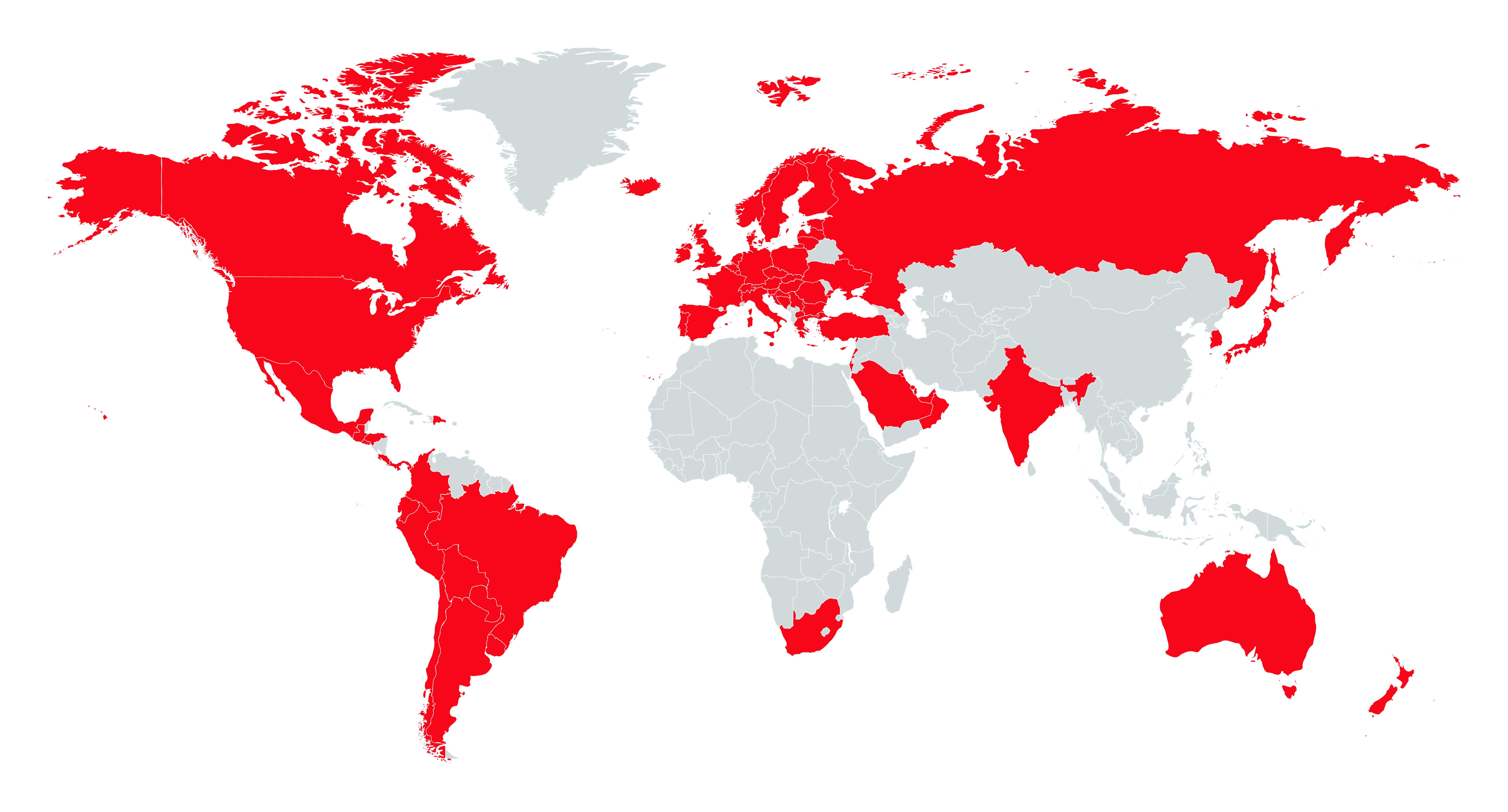 Countries where YouTube Music is available: Available Not available